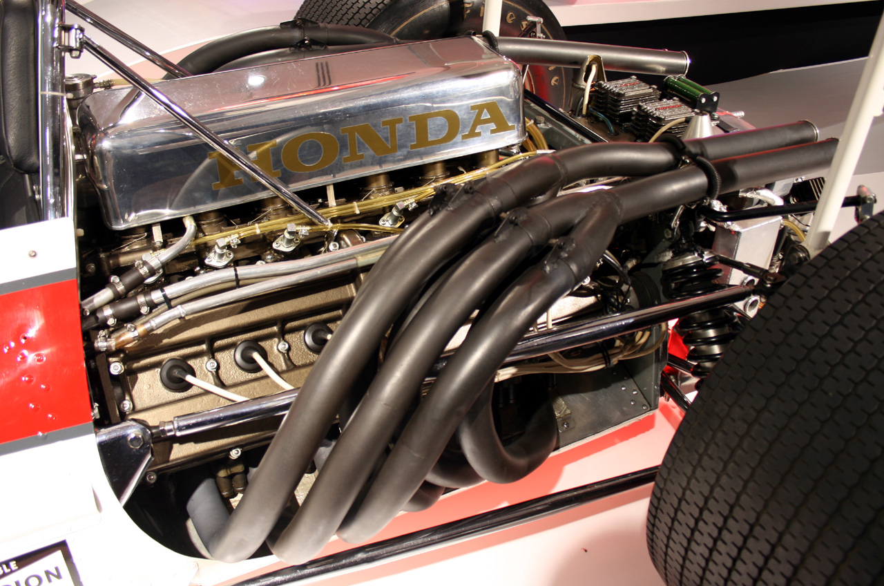 The Honda RA301E engine for the RA301